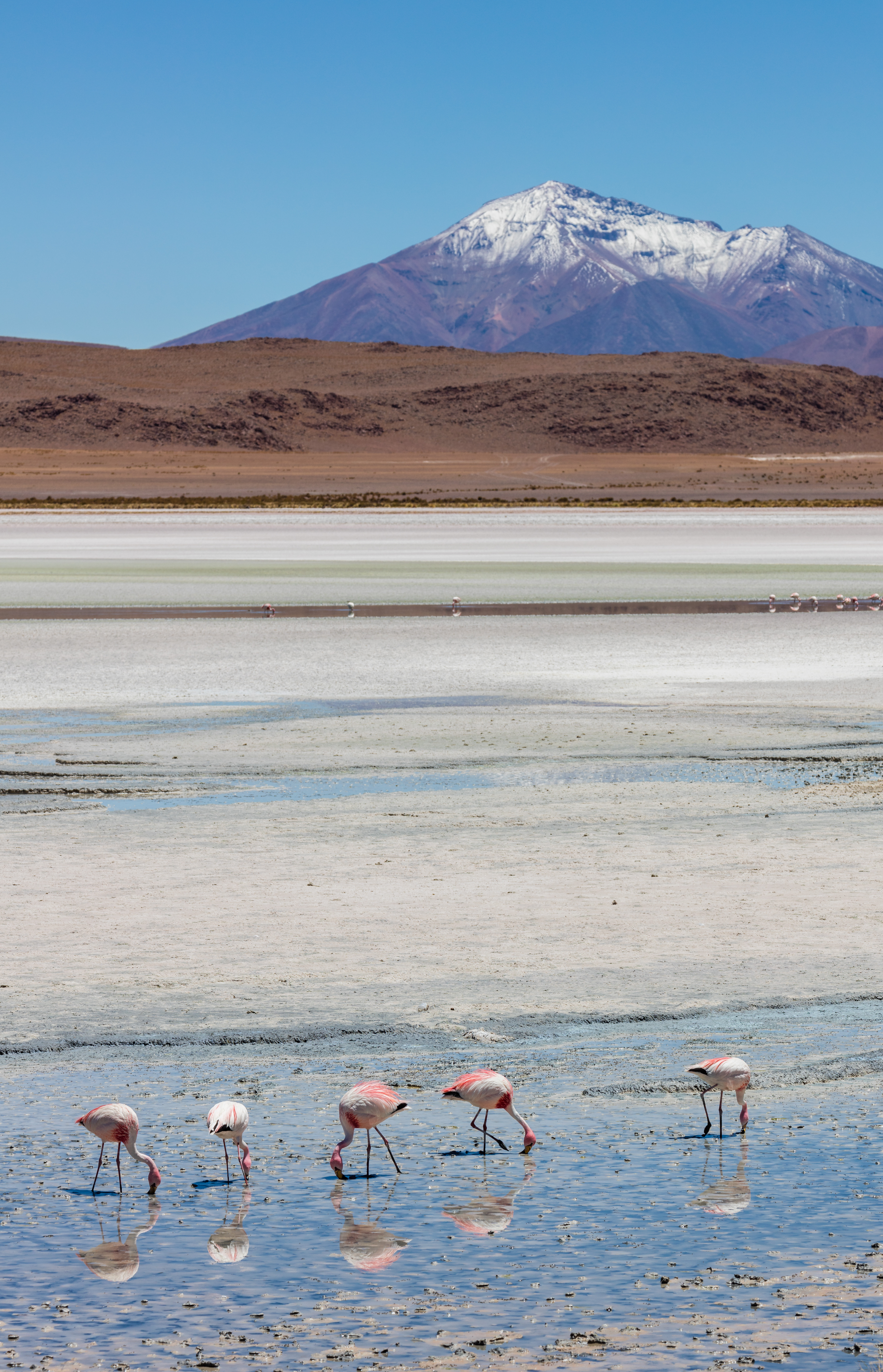 Puna flamingos (Phoenicoparrus jamesi) in the Laguna Hedionda, Nor Lípez Province southwestern Bolivia.